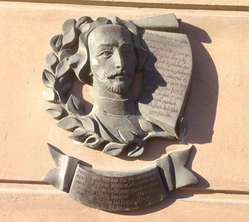 The commemorative plaque at the house in Stockholm (Räntmästarhuset på Slussplan 7, 59°19'19.2"N 18°04'24.2"E) where Prince Alexander of Imereti, a Georgian royal in the Russian service, lived in confinement from 1701 to 1711.